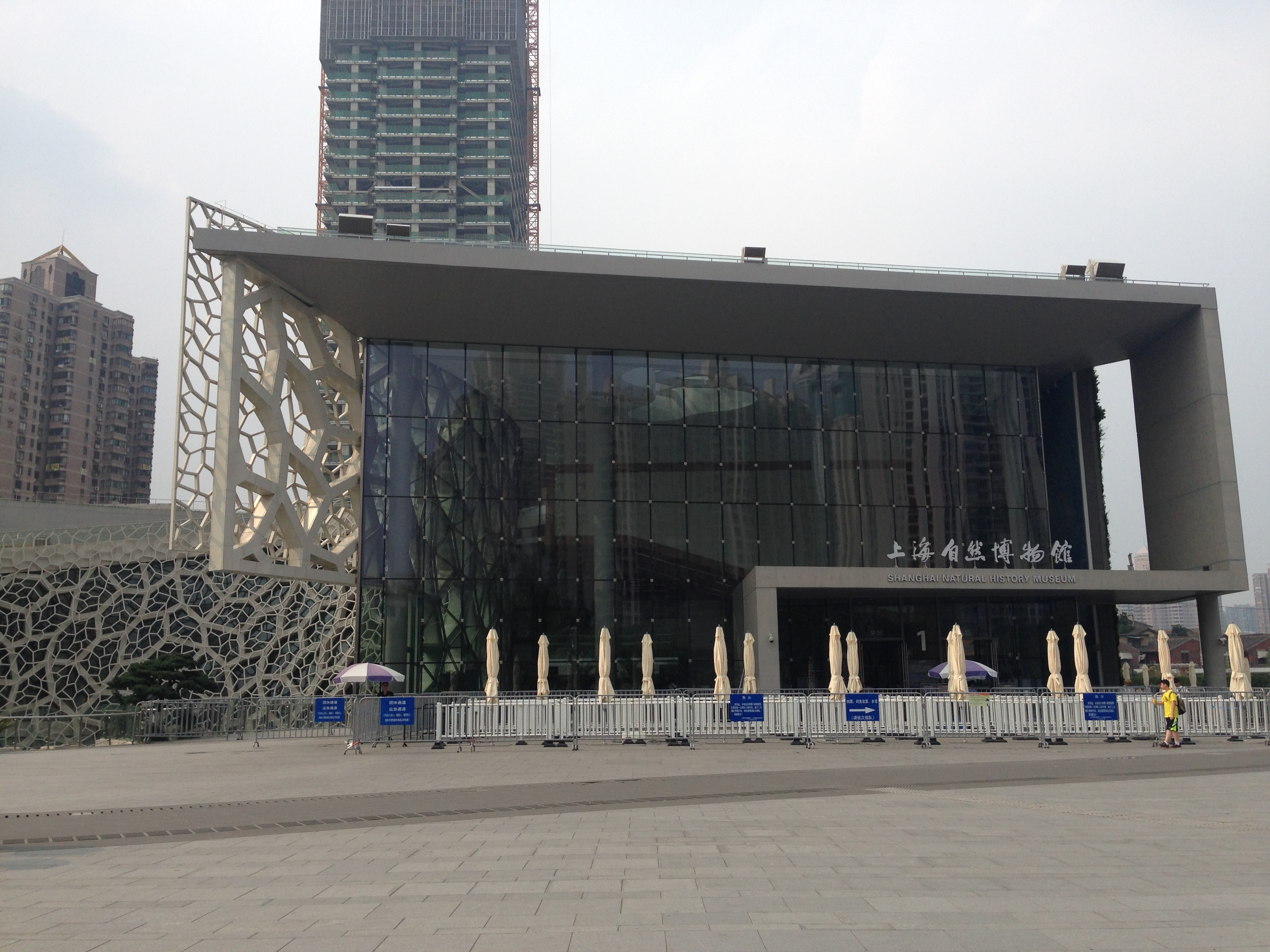 Entrance of Shanghai Natural History Museum